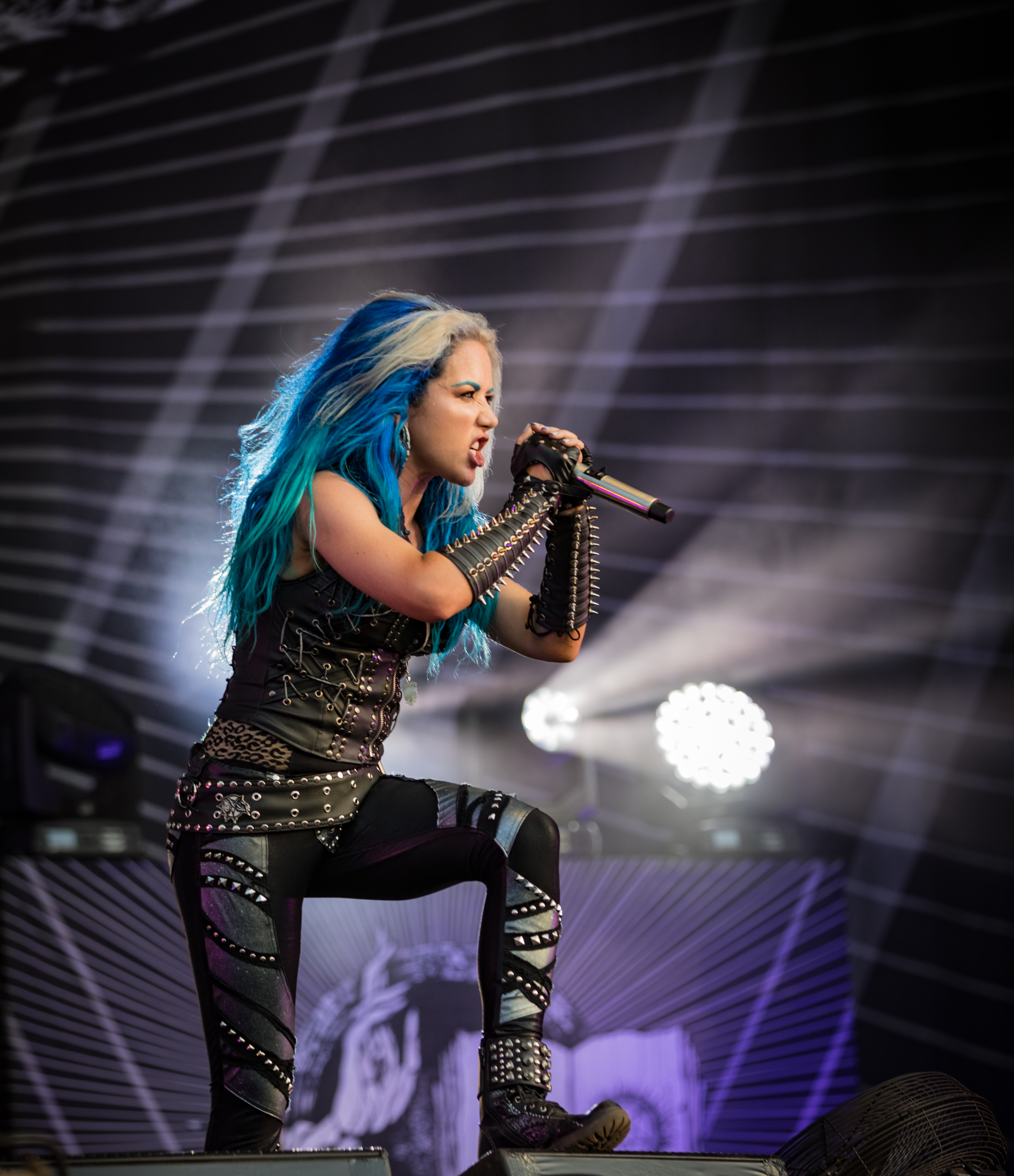 Arch Enemy - Wacken Open Air 2018